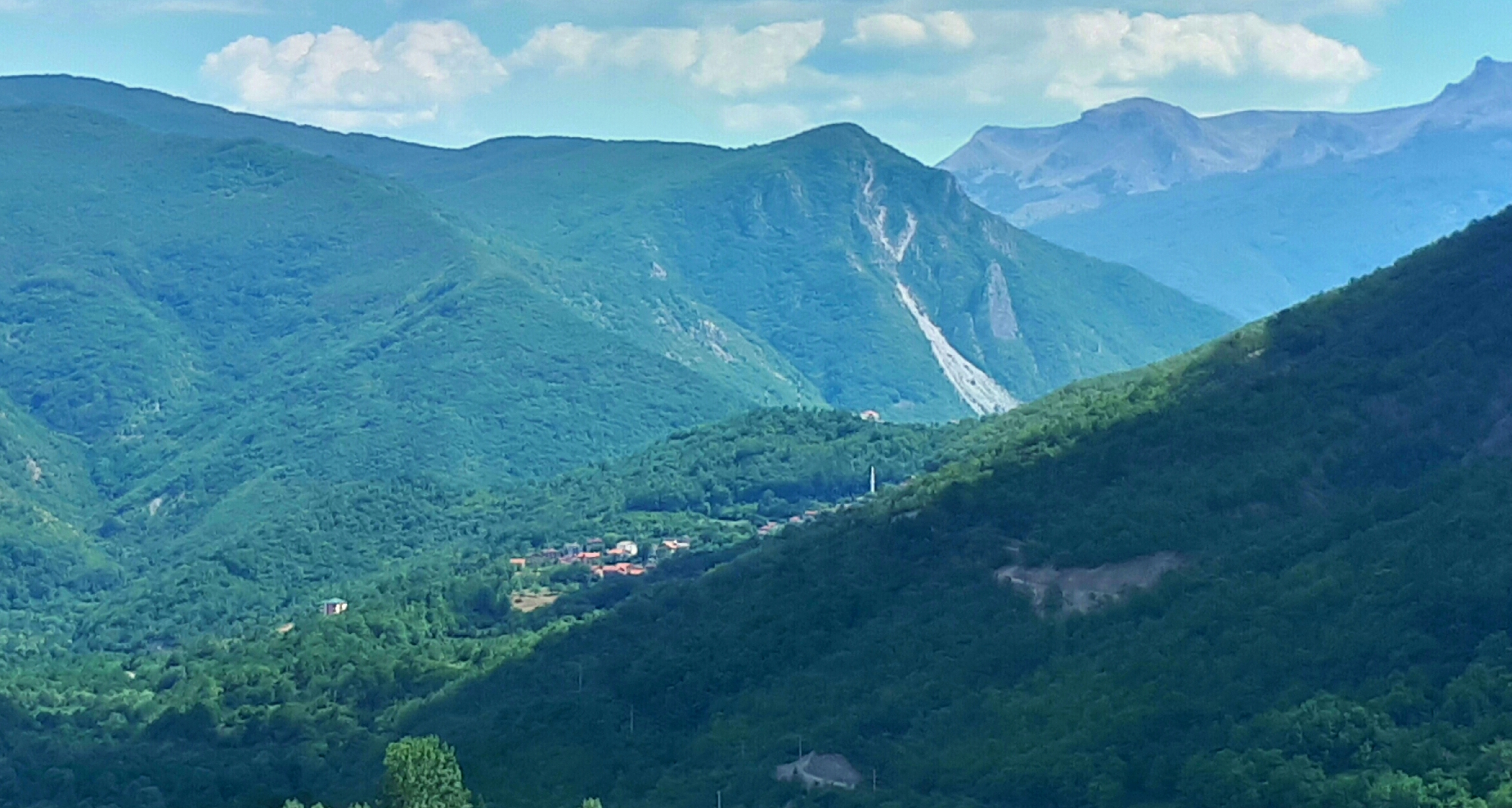 Taken during Wikiexpedition to Reka 2017